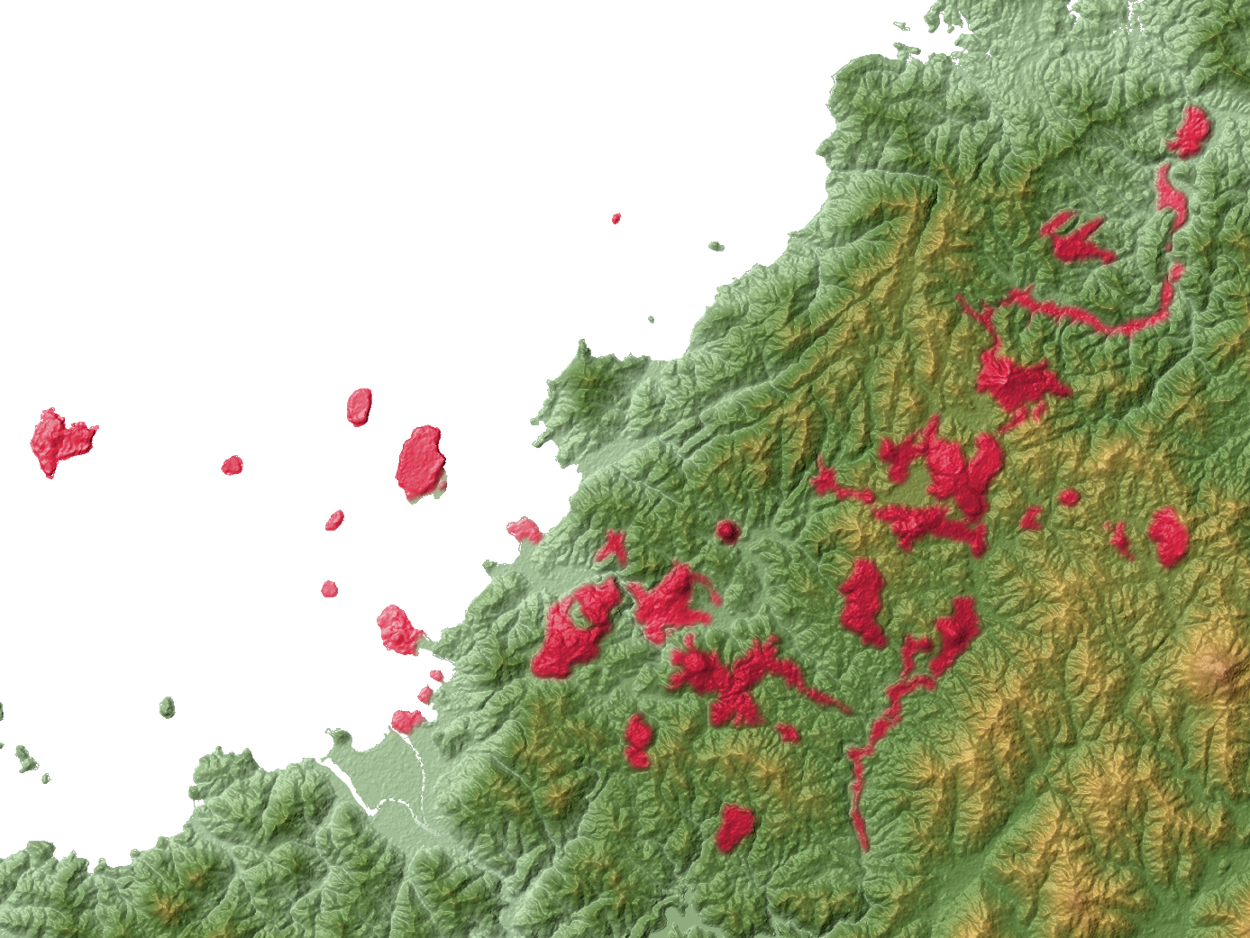 Distribution map of Abu Volcano Group in Yamaguchi Prefecture, Honshu, Japan.